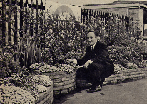 From my London Underground Tube Diary